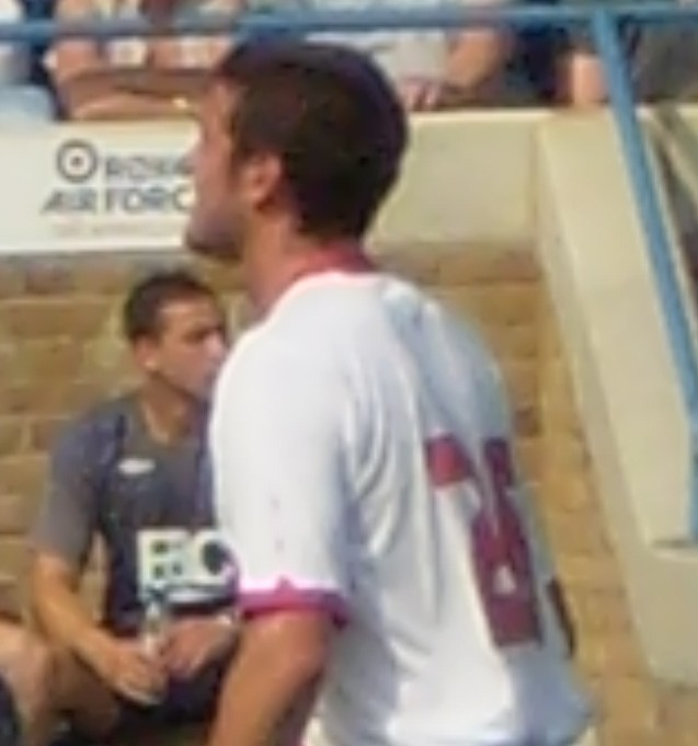 Franck Queudrue of Birmingham City F.C. during a friendly match against Gillingham F.C. at the Priestfield Stadium